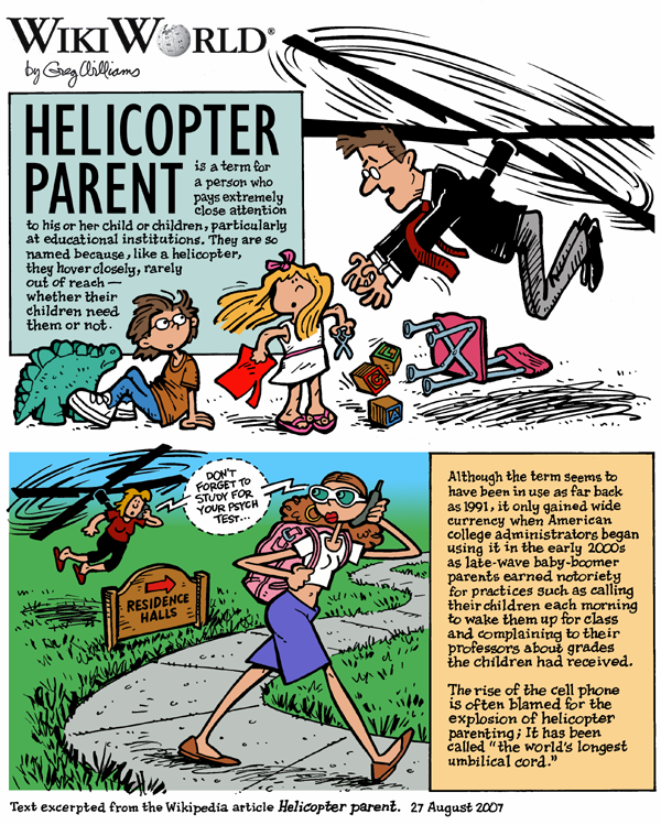 WikiWorld comic based on the article "Helicopter parent"